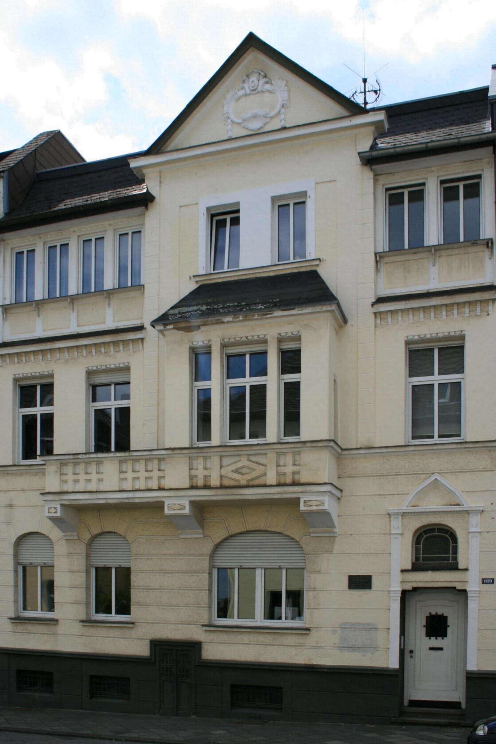 Cultural heritage monument No. L 039 in Mönchengladbach